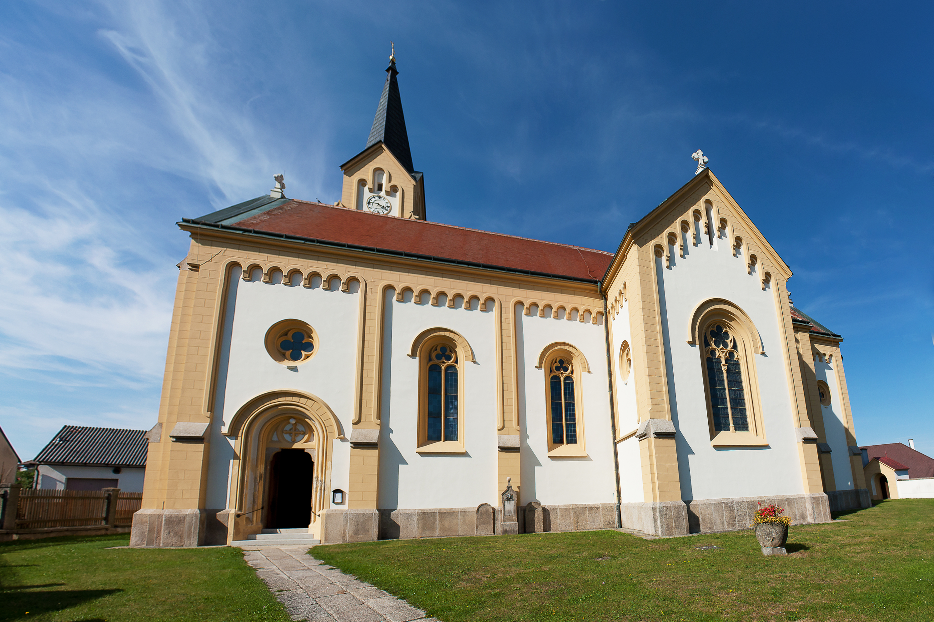 Saint Agydius-Church in Langschwarza